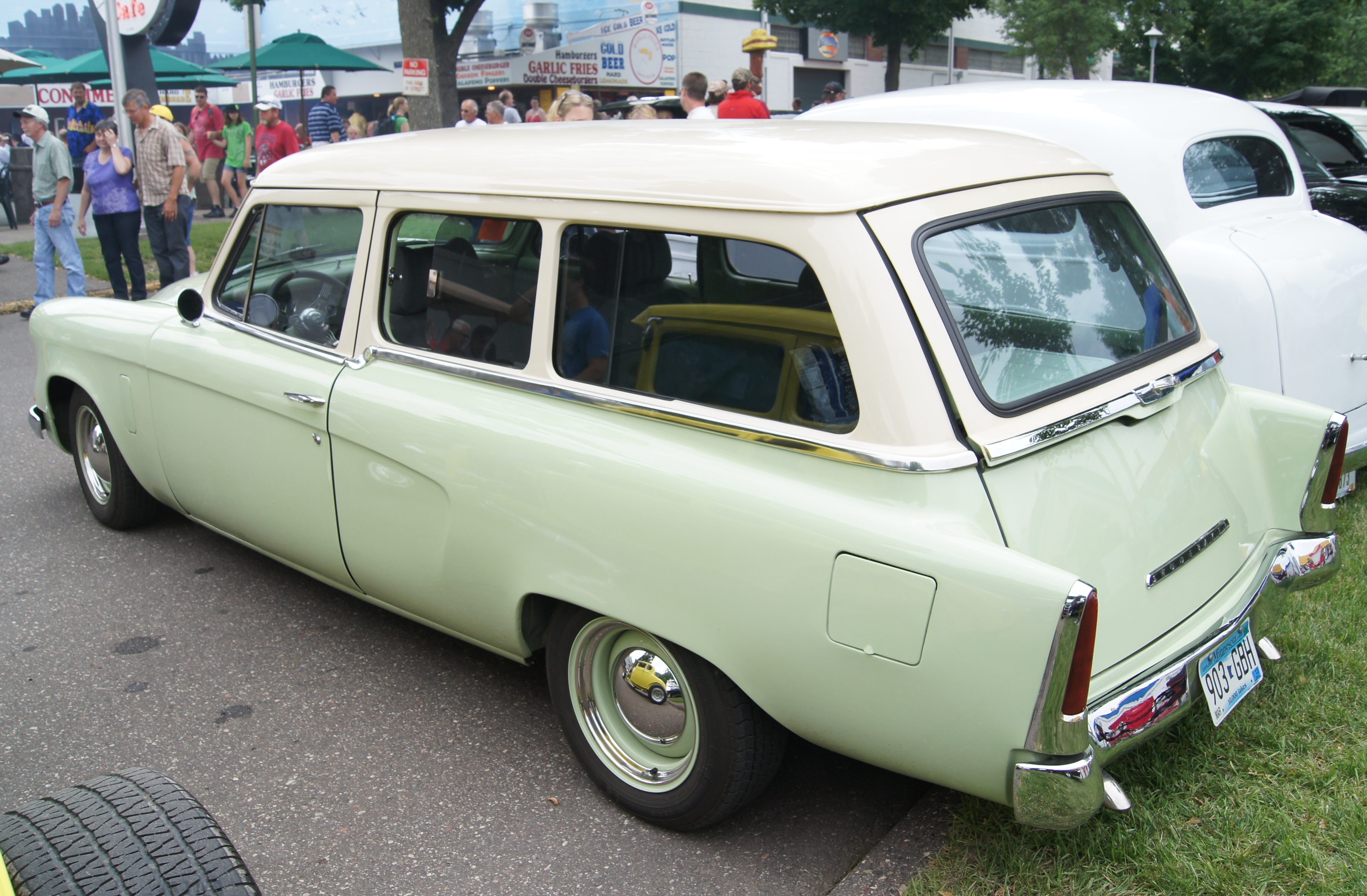 Minnesota Street Rod Association 39th Annual "Back to the Fifties" June 2012 Minnesota State Fairgrounds St. Paul MN